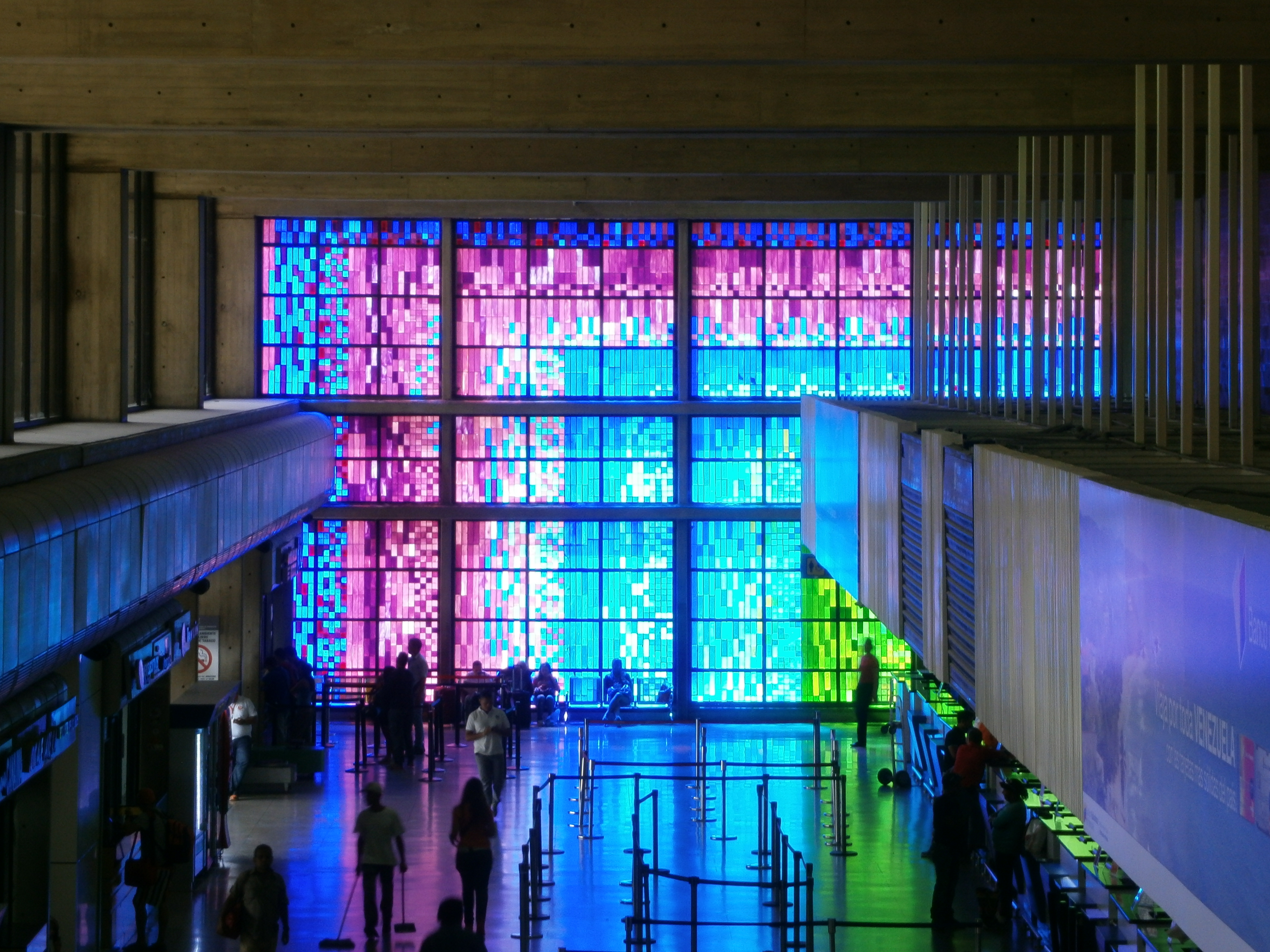 Vitrals at Simón Bolívar International Airport